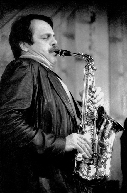 Phil Woods at Bach Dancing & Dynamite Society, Half Moon Bay CA 4/17/1983 / photo ©1983 Brian McMillen /